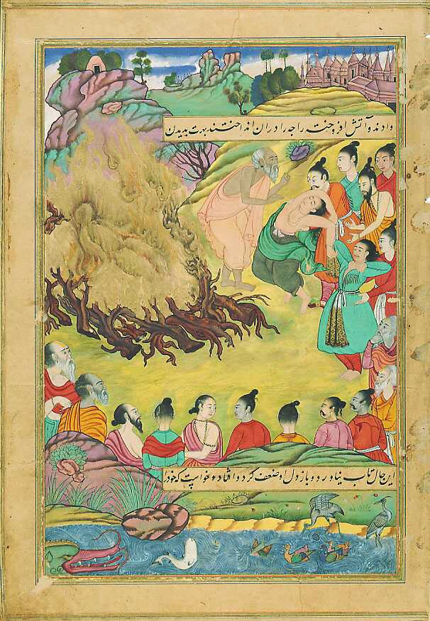 After Rama departure, Dasratha died. Miniature show Bharat was fainted during his father cremation while sage Vasistha talk with him. We also show sages and courtiers.